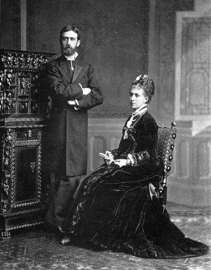 Infante Alfonso Carlos of Bourbon, duke of San Jaime and his wife Maria das Neves of Braganza